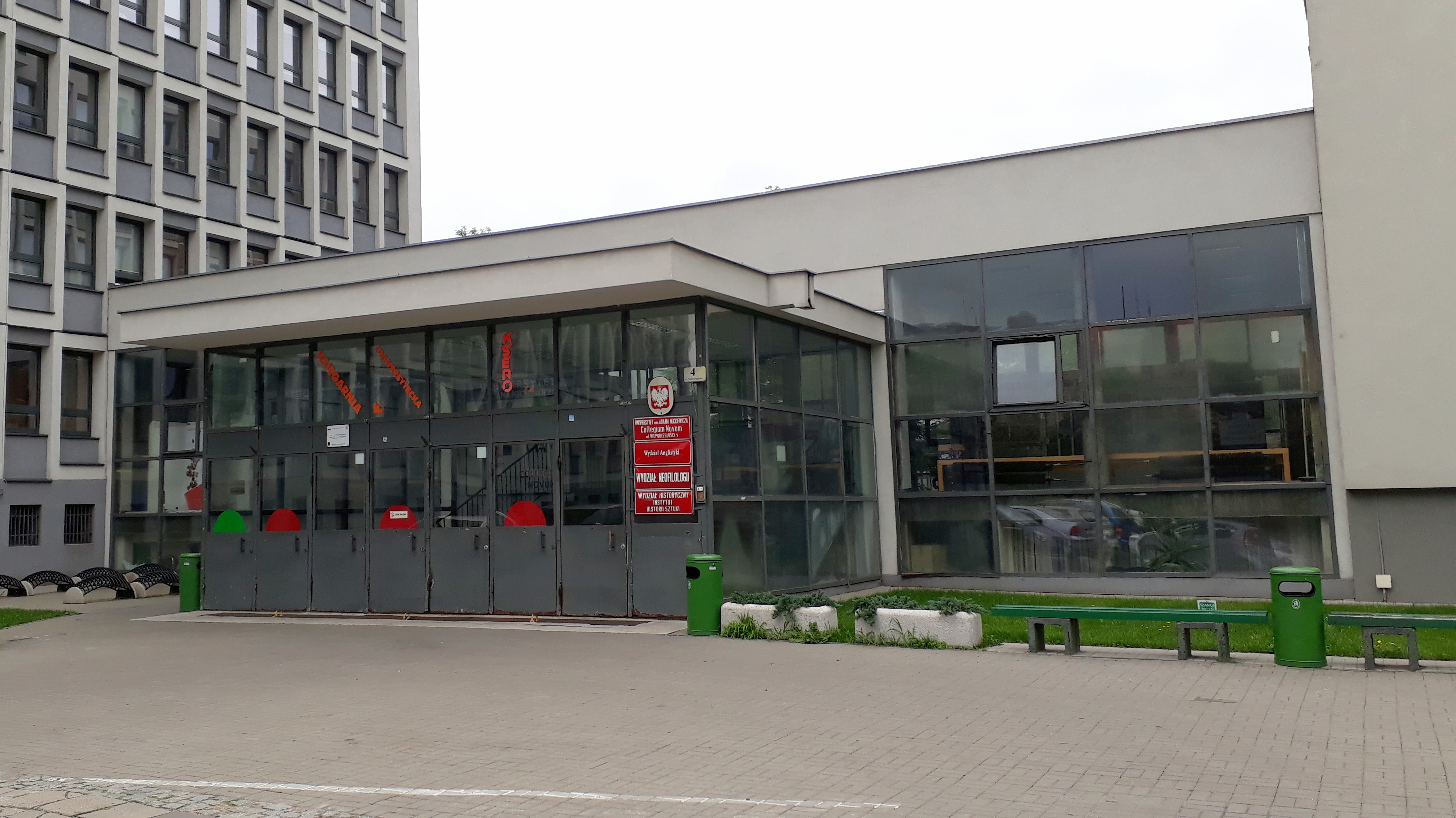 Adam Mickiewicz University, Poznań, Poland